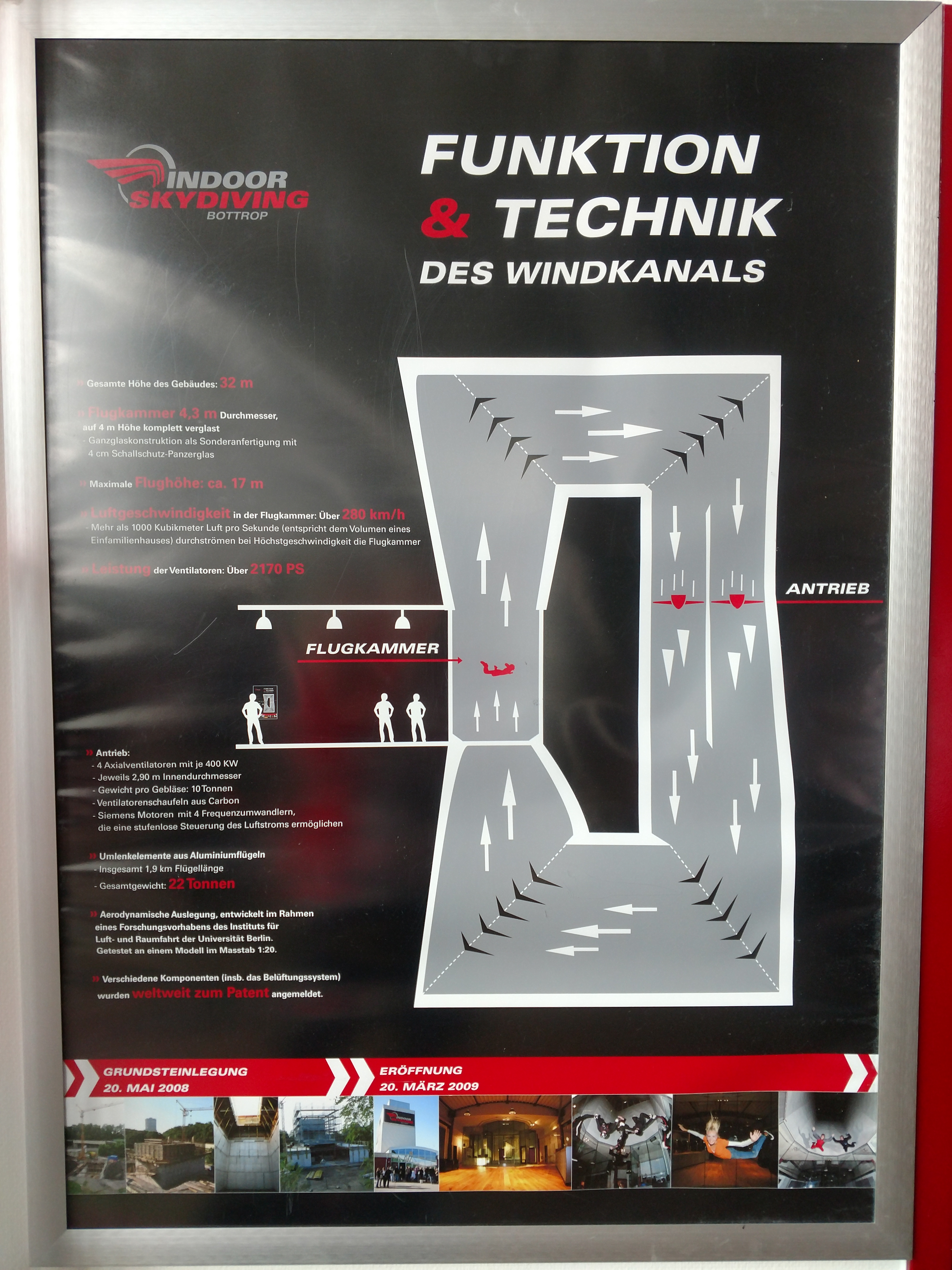 The principal scheme of the Vertical Wind Tunnel at Bottrop, Germany